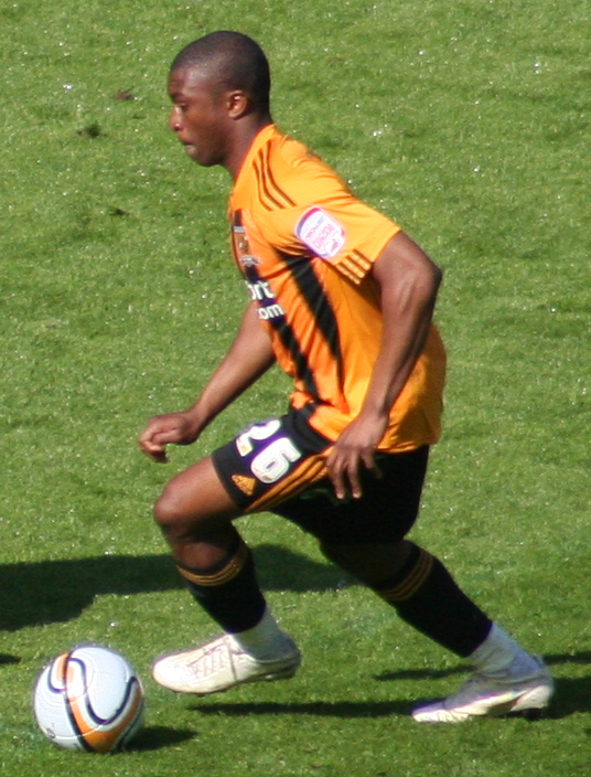 David Amoo. Image cropped from original at flickr.